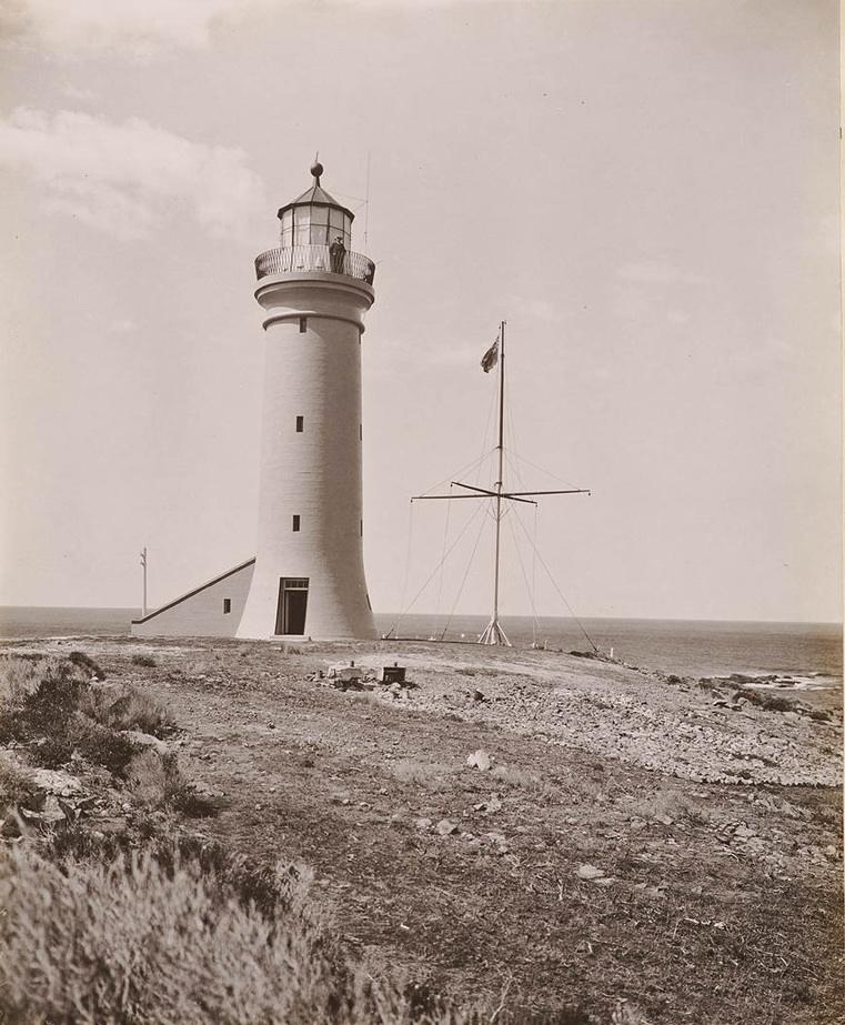 Point Stephens Light, 1902